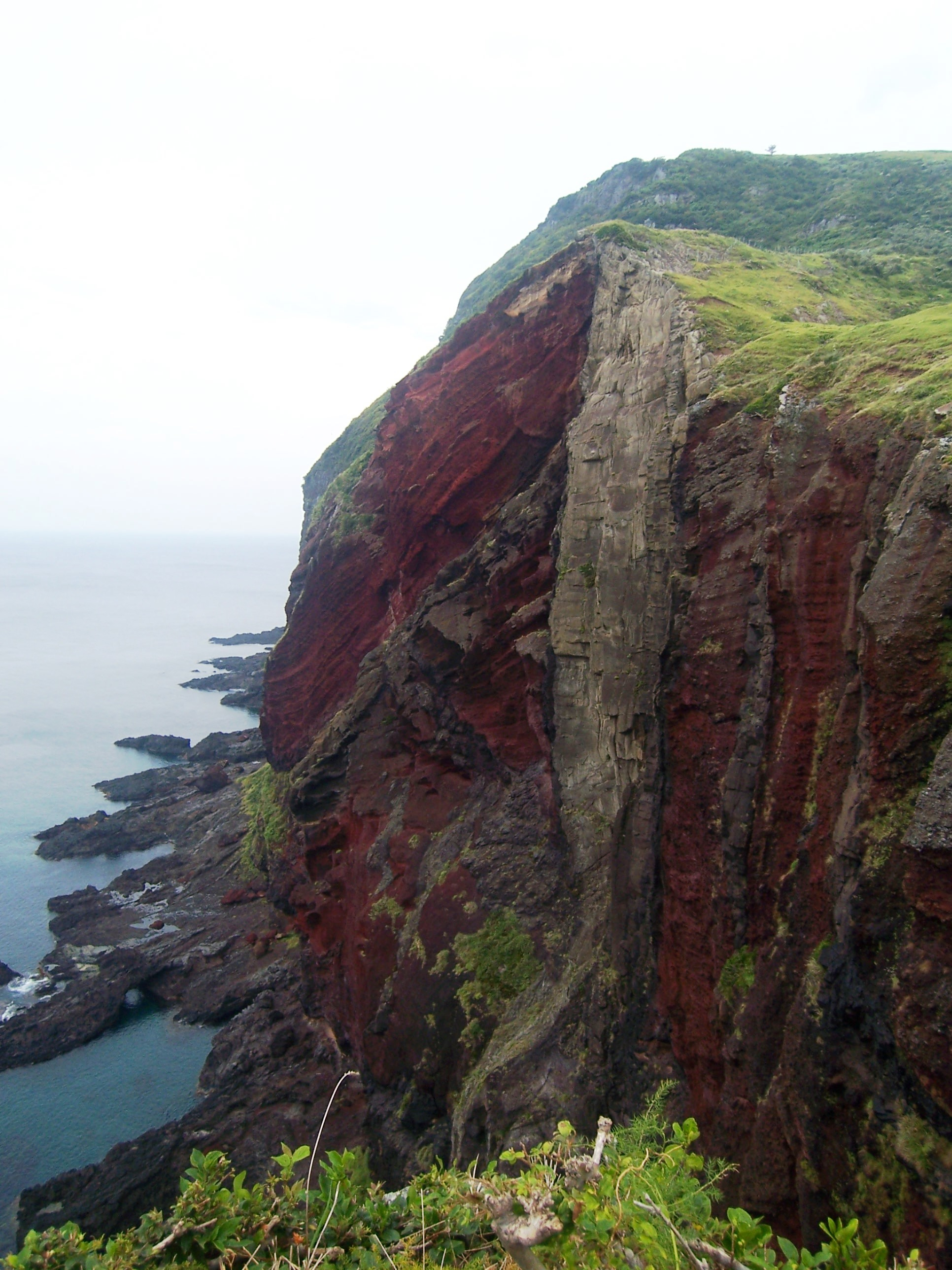 Chibu Sekiheki, Chiburijima, Oki Islands, Shimane Pref.